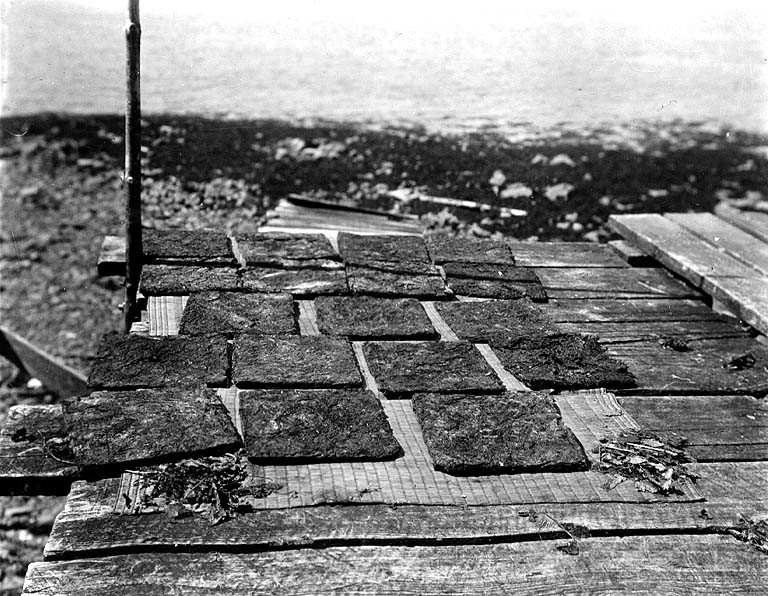 From John Cobb field notebook: Seaweed drying in cakes, Shakan, July 16, 1911 Subjects (LCTGM): Tlingit Indians--Subsistance activities Subjects (LCSH): Food drying--Alaska--Shakan; Marine algae as food--Alaska--Shakan